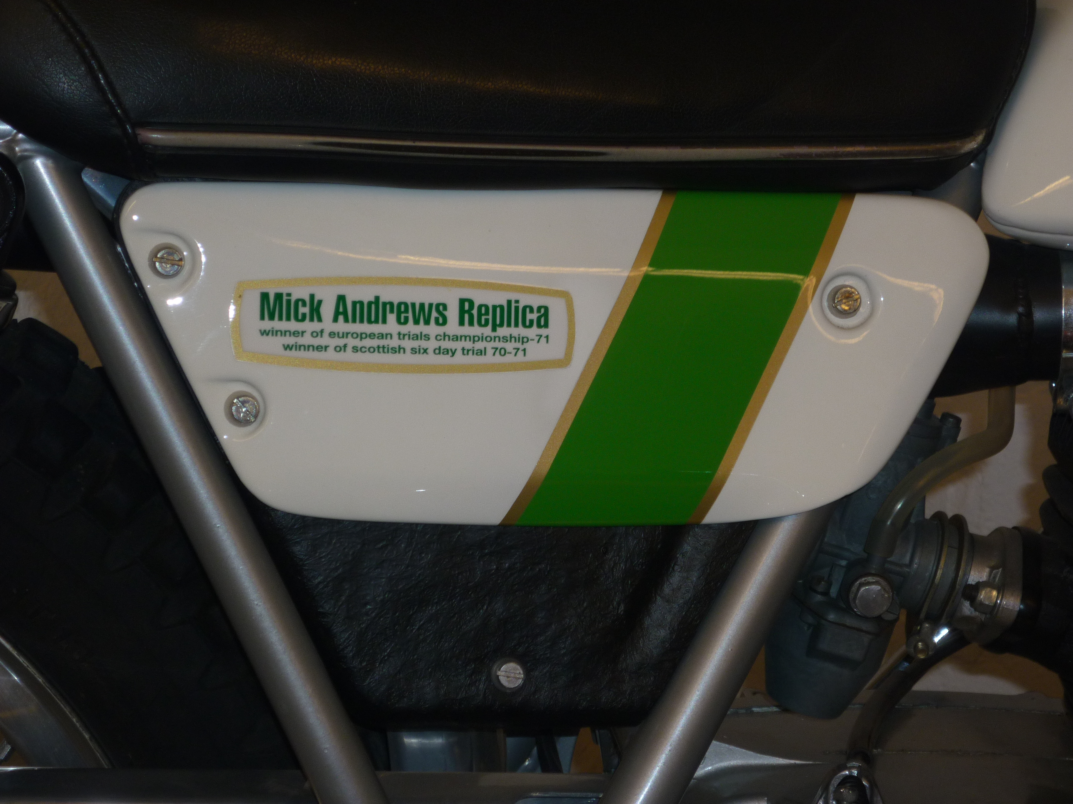 OSSA MAR ("Mick Andrews Replica") 250cc, 1972. Filter cover view.Museu de la Moto de Barcelona (Catalonia).